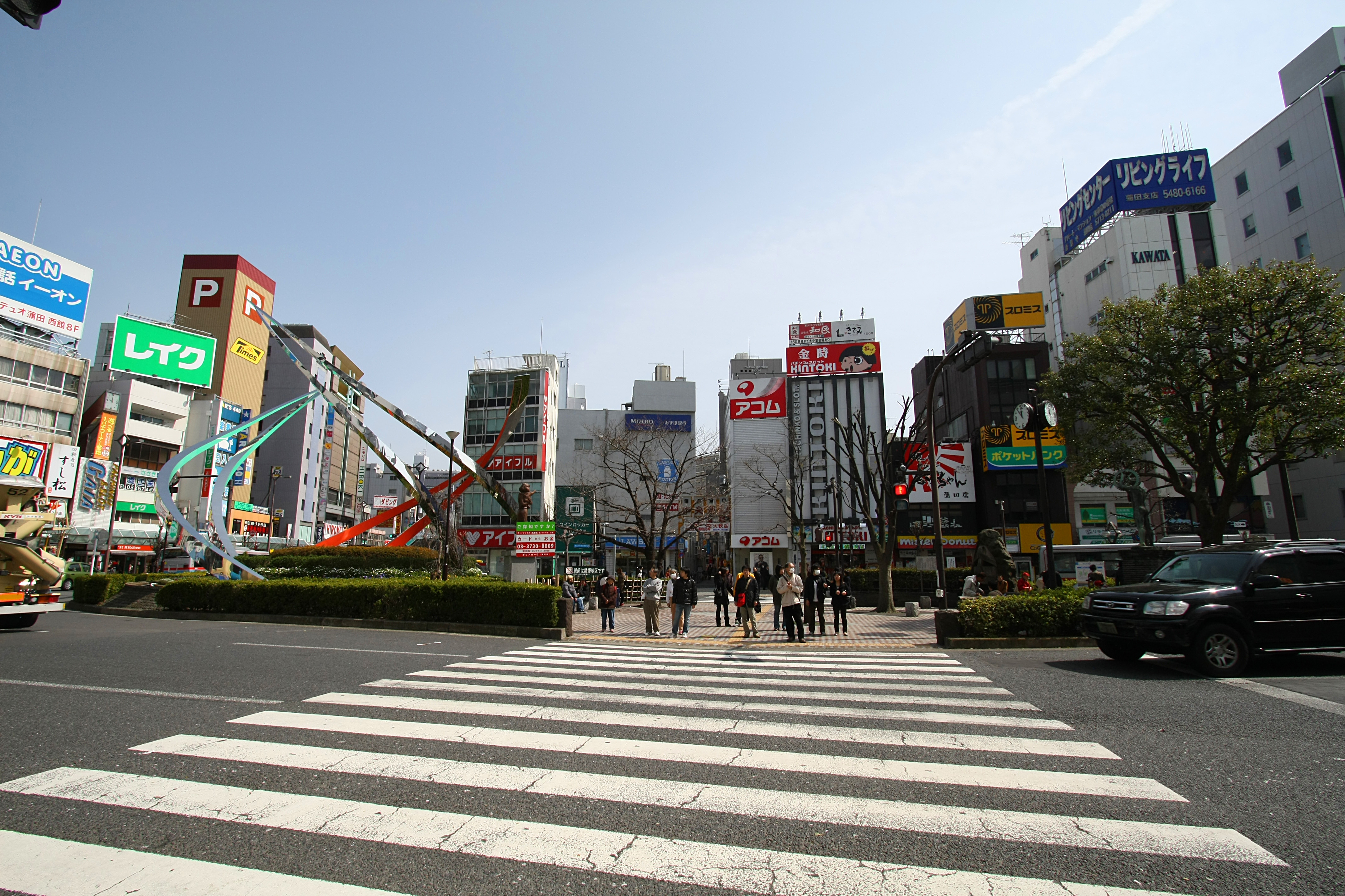 Kamata Station East Entrance Rotary